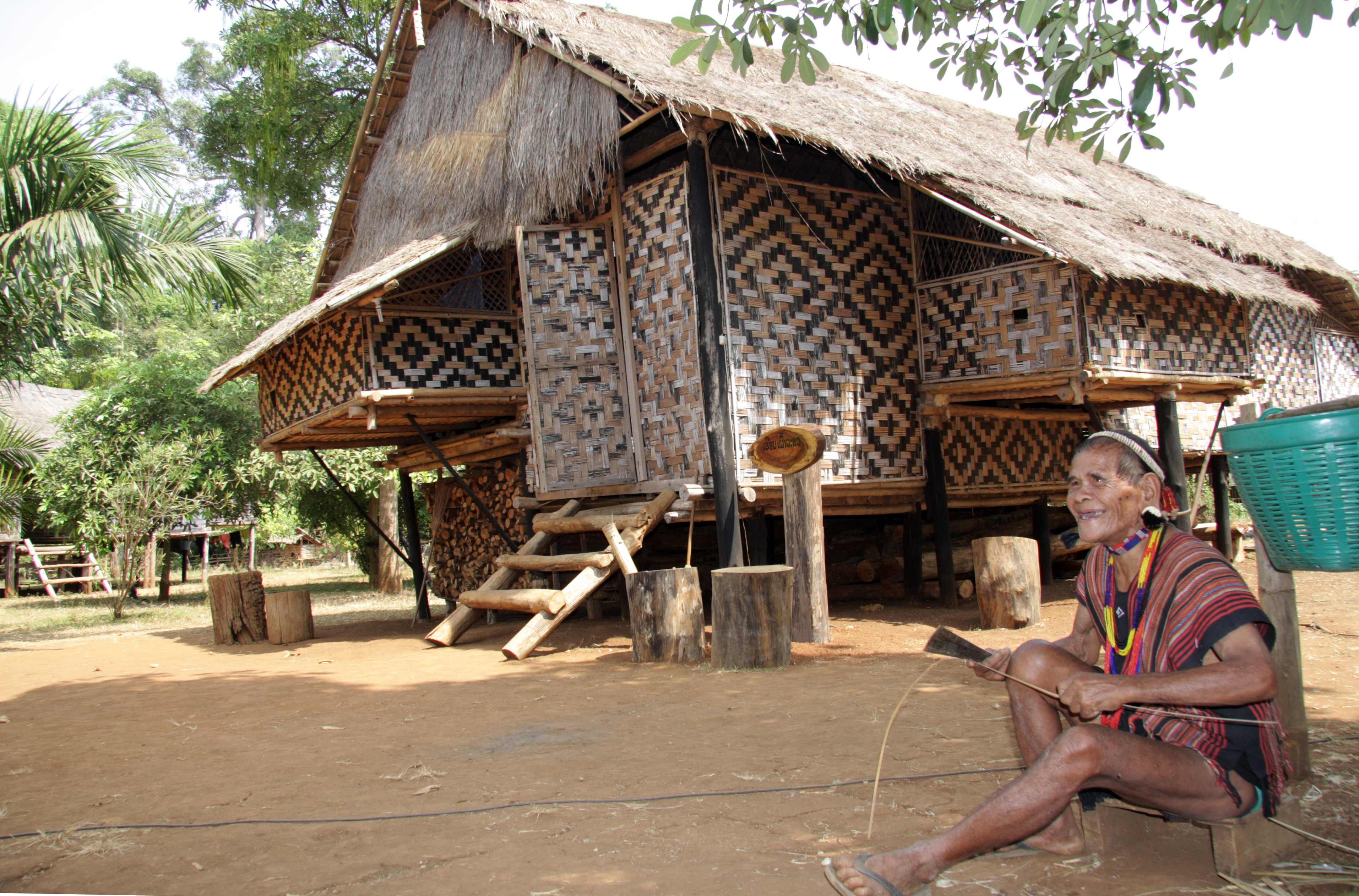 A Brao man near his house. Laos, Sekong Province. In Laos Brao are called Lawae.